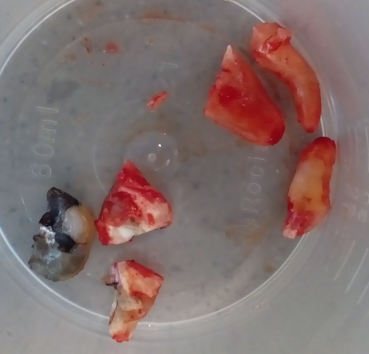 A molar tooth (lower left 6) extracted from the photographer, at Birmingham Dental Hospital, by being cut up into six pieces, in situ, and the jaw cut to release the roots. The tooth is unusual for a white European person's lower molars, in having three roots, instead of two. The curvature of the roots (the three pieces to the right) prevented straightforward extraction.